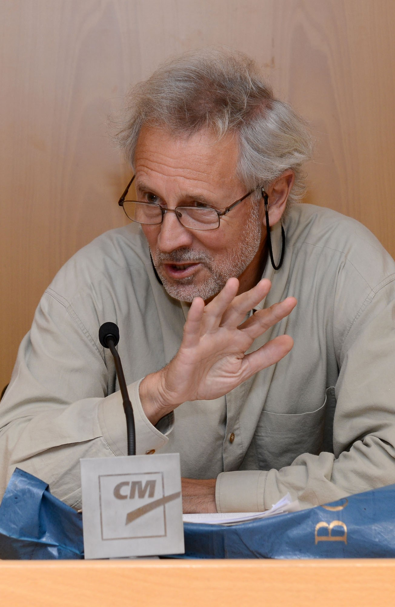 Malcolm Budd at the conference 'Themes on Malcolm Budd: VII Inter-University Workshop on Mind, Art and Morality' Murcia, Spain, 2013.